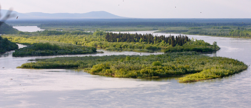 Erin McKittrick, Ground Truth Trekking, Nushagak River, draining into Bristol Bay